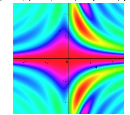 q derivative of sin(x) density plot